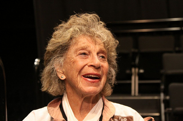 Anna Halprin at the University of San Francisco